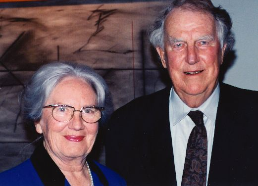 From Wash. D.C. November 16, 1998 The former ..." June Mulgrew "